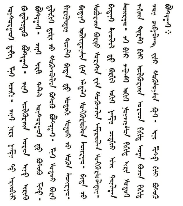 Todo Bichig version of "The Lords Prayer" Source: Das Gebet des Herrn in den Sprachen Russlands, St. Petersburg, 1870. Ought to replace: Kalmyk script.jpg (noticed to late)